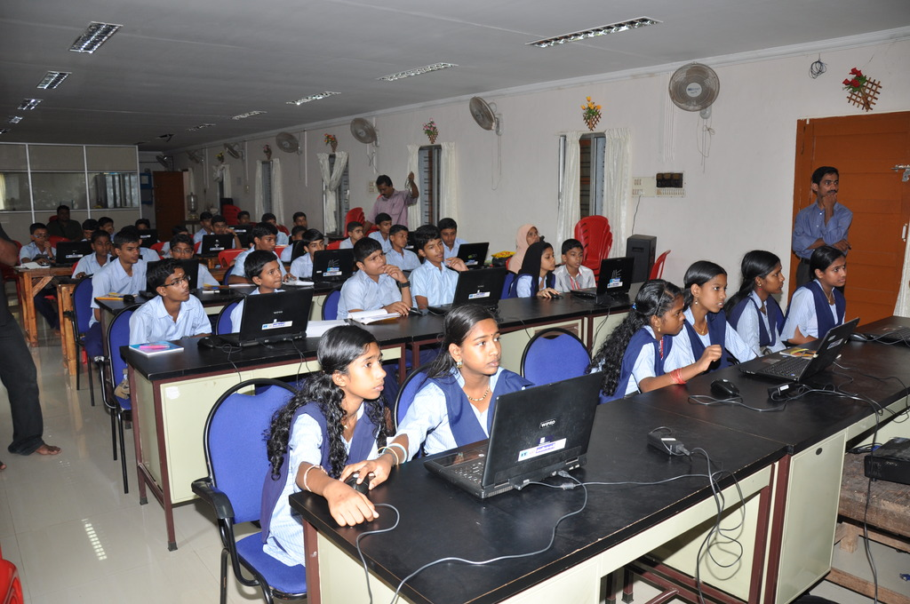 Mal wiki -it@school education project workshop at Kollam It@school district resource centre